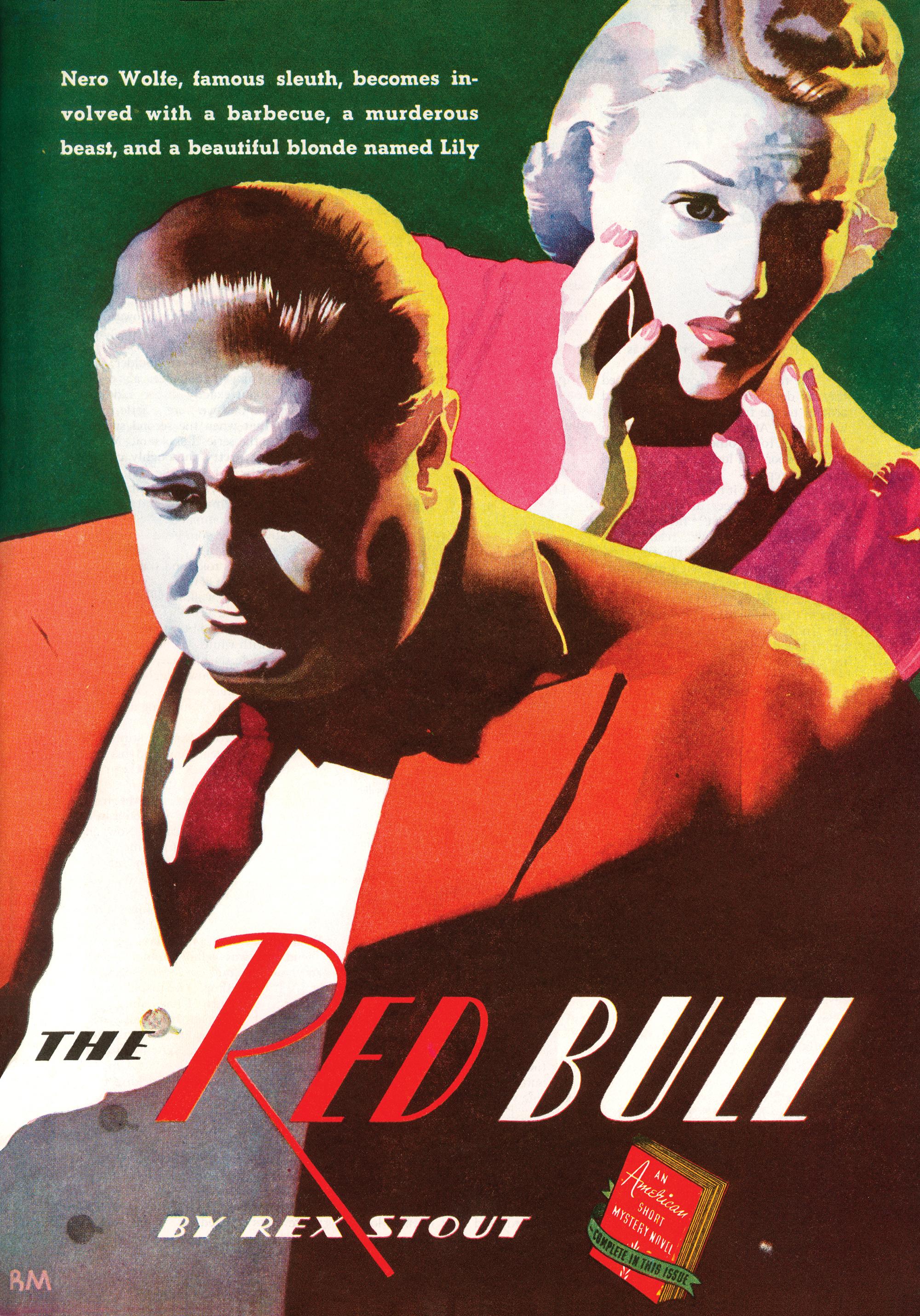 Lead illustration from The American Magazine abridged printing of Some Buried Caesar (1939), a Nero Wolfe novel by Rex Stout that first appeared under the title "The Red Bull"